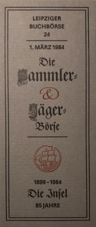 Sticker, soc. Leipziger Buchbörse 1984, IB 681/2, Schwob